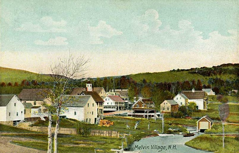 View of Melvin Village, Tuftonboro, New Hampshire; from a 1908 postcard published by the Hugh C. Leighton Company, Portland, Maine.